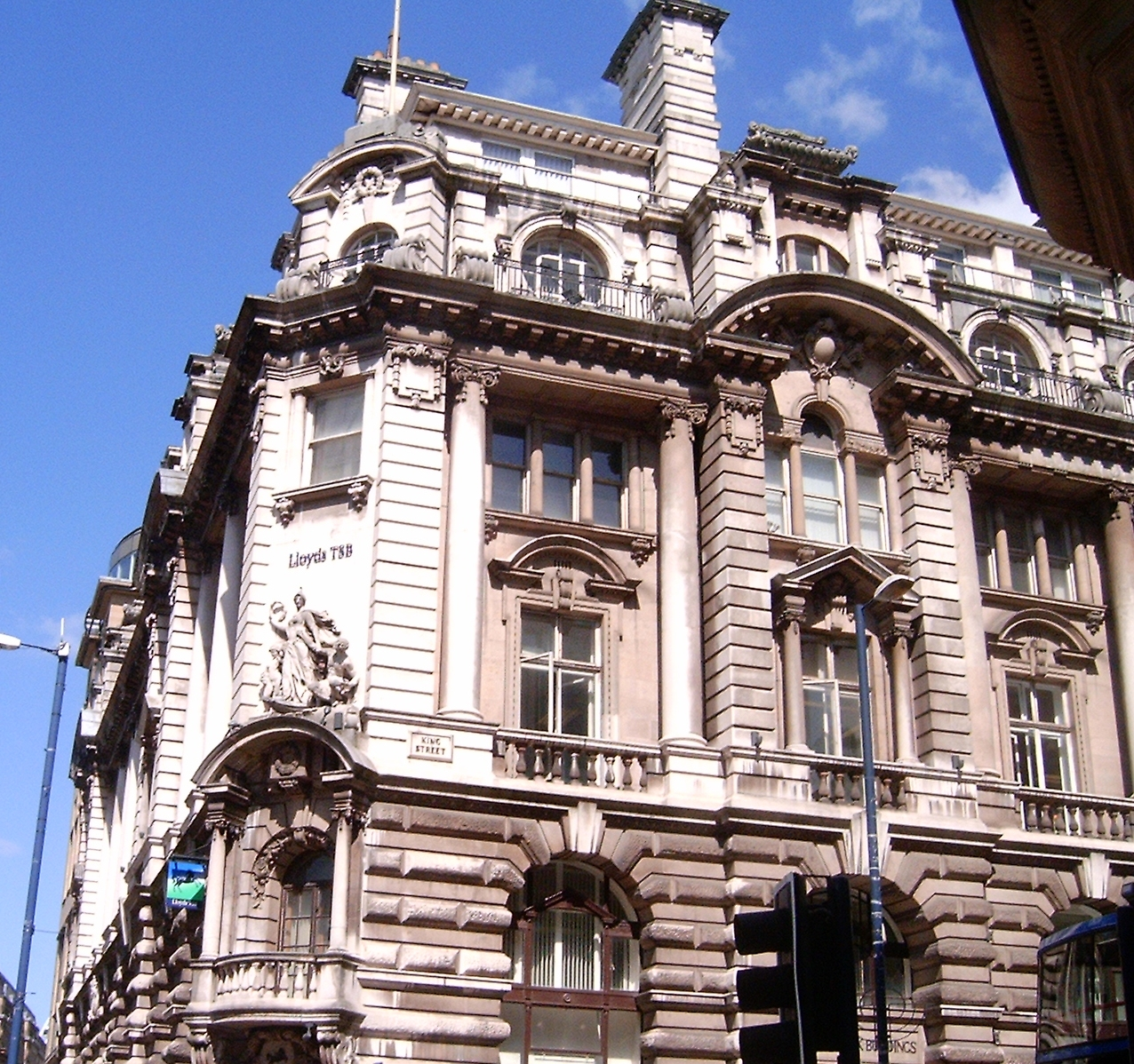 Lloyds Bank Building, King Street Manchester